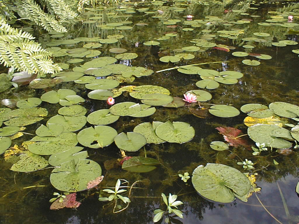 Water lilies at the flower promenade in Aureilhan, France.